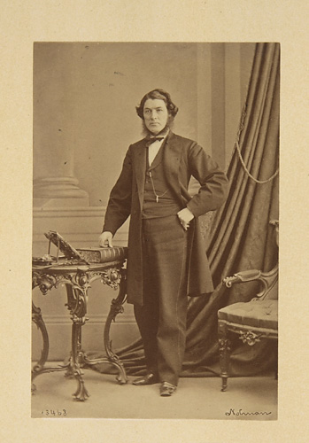 Charles Tupper while premier of Nova Scotia